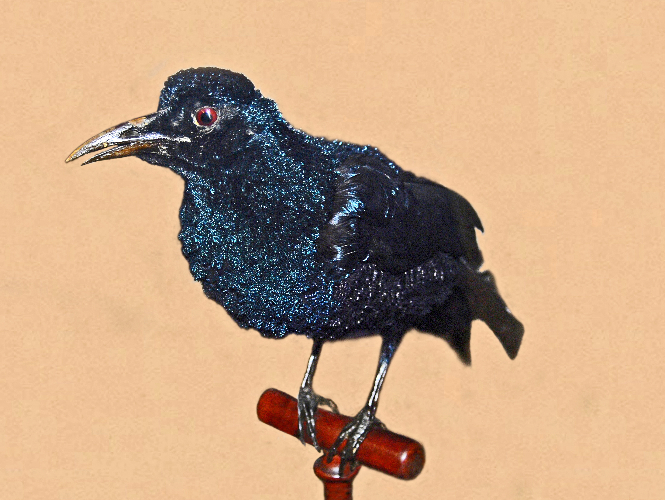 Manucodia comrii. On display at the University History Museum, University of Pavia